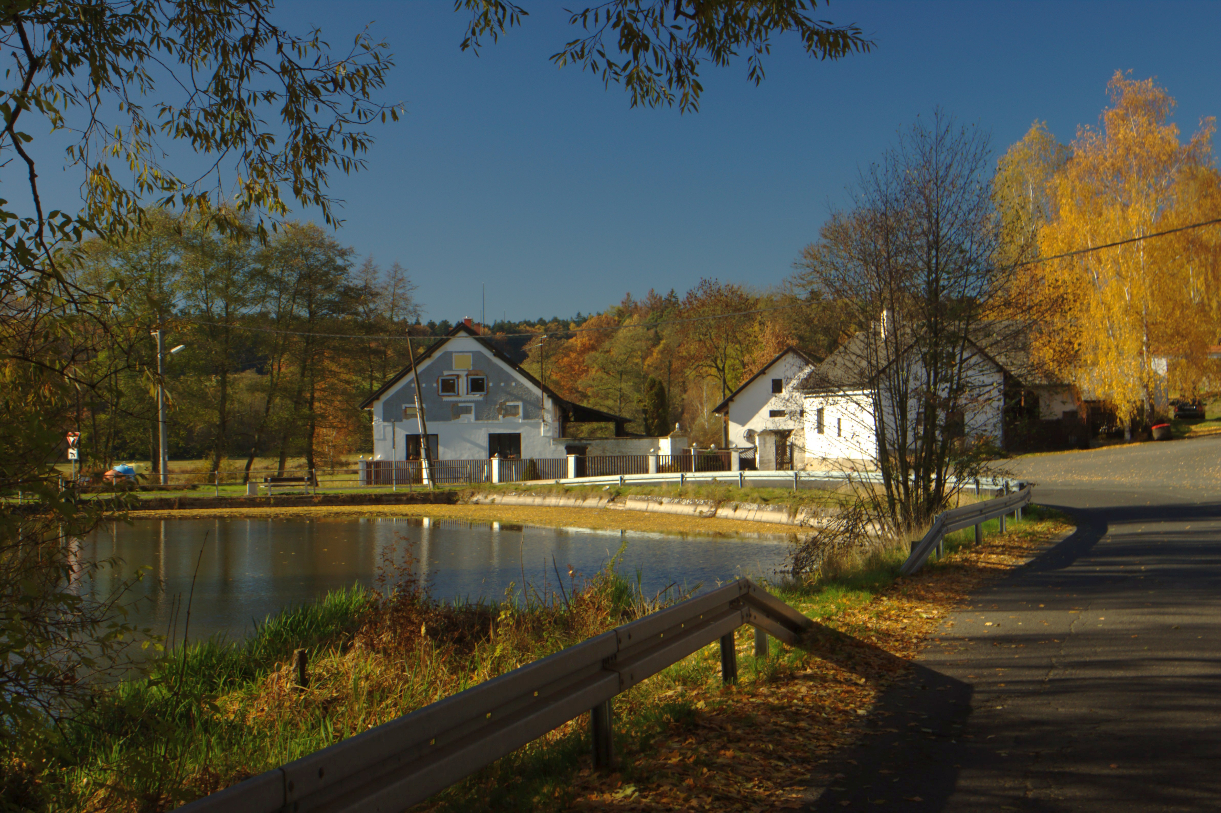 A pond in the village of Nestrašovice in Central Bohemia, CZ